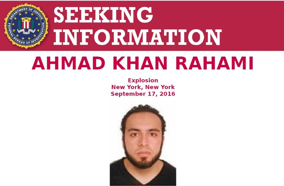 SEEKING INFORMATION Ahmad Khan Rahami